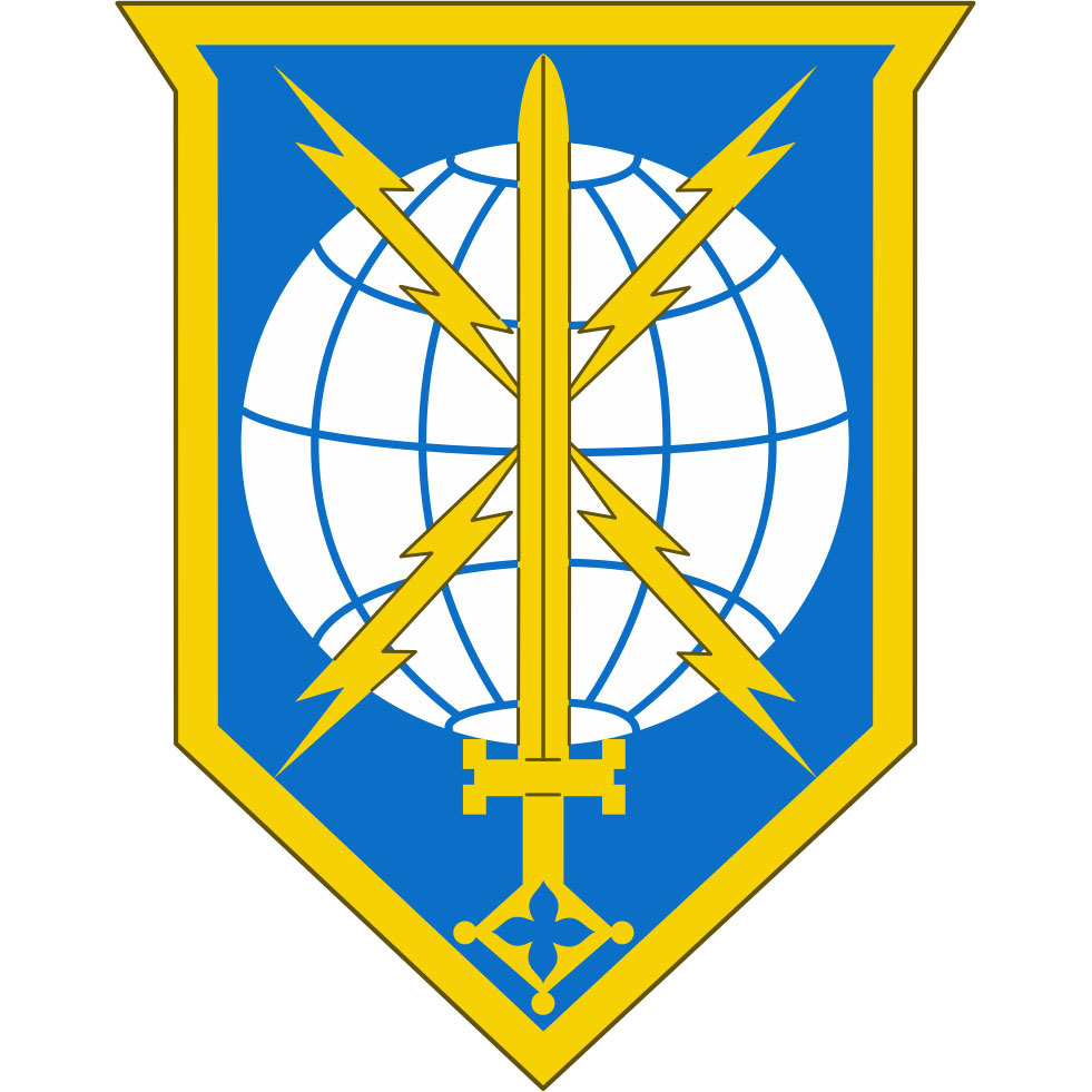 US Army insignia